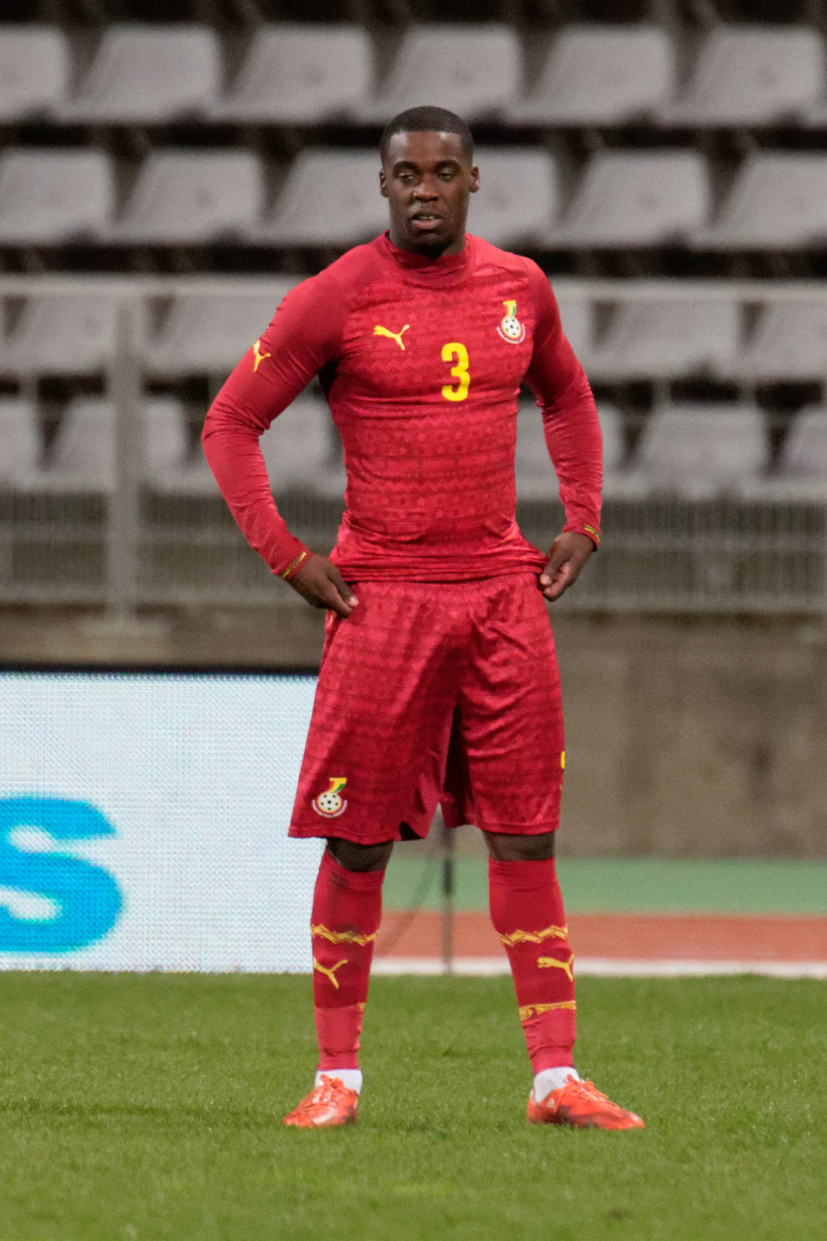 Mali vs Ghana, exhibition game at Paris, 31st March 2015.